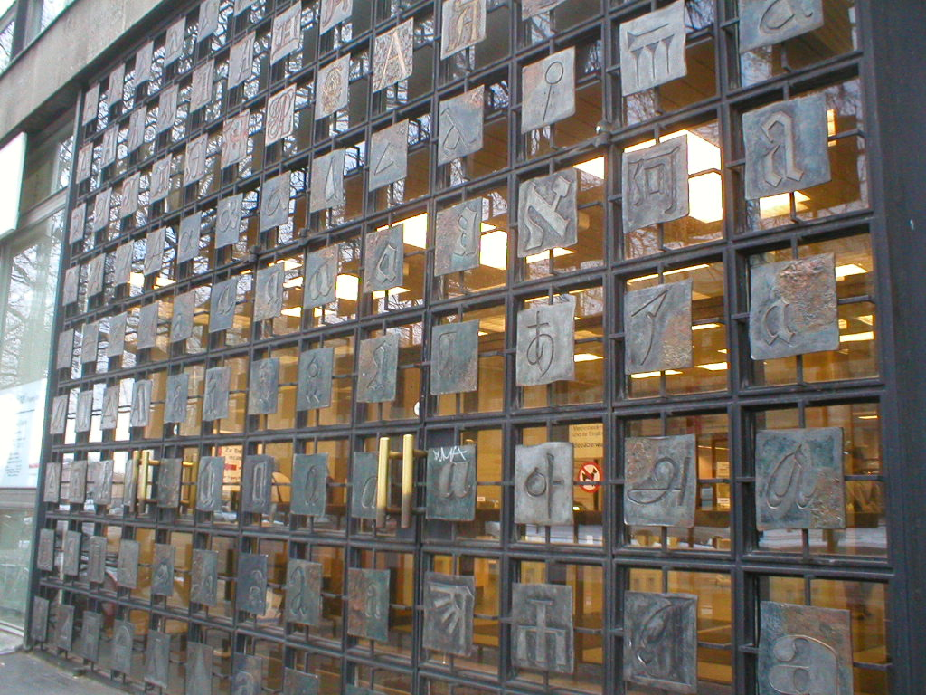 Entrance to Berlin's city library ("Stadtbibliothek") in the Breite Straße street, the so-called "alphabet tapestry" (Buchstabenteppich)